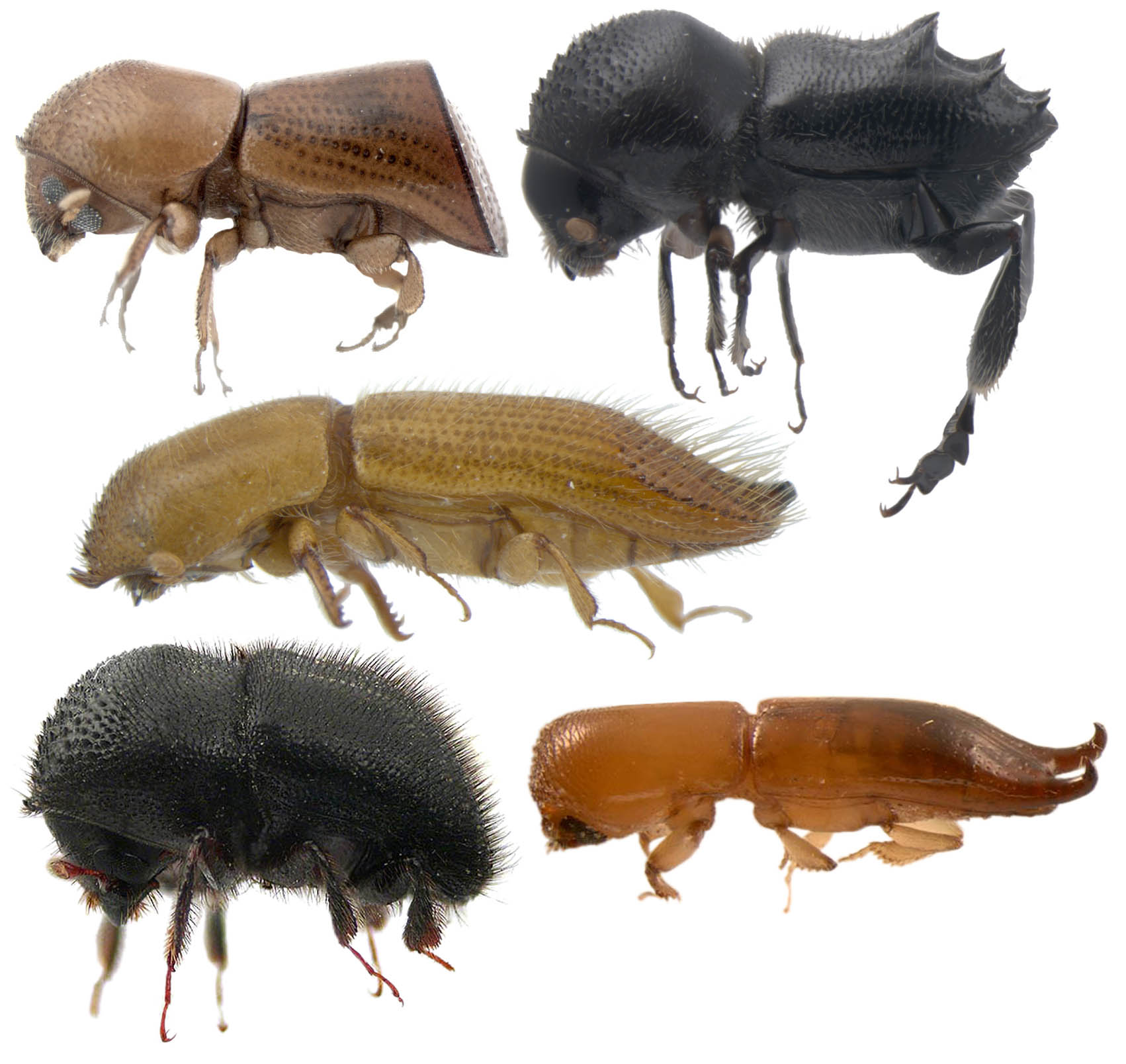 Representatives of Xyleborini, the most diverse group of ambrosia beetles. Top left: Amasa resectus Top right: Eccoptopterus spinosus Center: Sampsonius dampfi Bottom left: Anisandrus ursa (formerly in Xylosandrus) Bottom right: Streptocranus fragilis (formerly in Coptoborus)